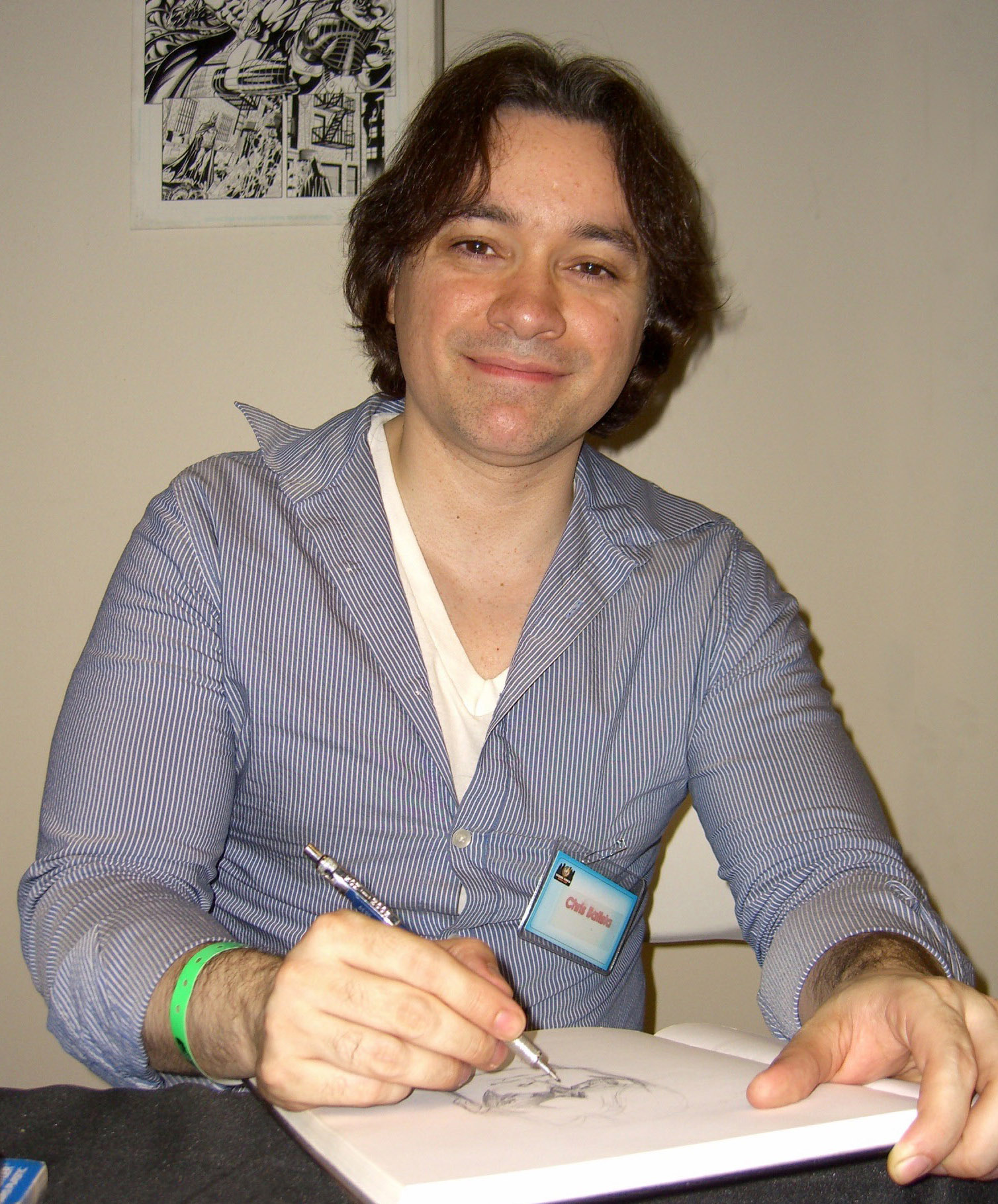 Comics creator Chris Batista at the Big Apple Convention in Manhattan, May 21, 2011. Photographed by Luigi Novi. This photo is not in the public domain. It may, however, be used, modified and published for any purpose, free of charge, only if the photographer is properly credited, either by linking the photograph to this page, or with an easily visible credit to the photographer placed near the photo in each instance in which it is used. (See licensing information below.) Publication of this photo without this proper attribution constitutes copyright infringement. If you have any questions, you can contact me on my Wikipedia Talk Page.